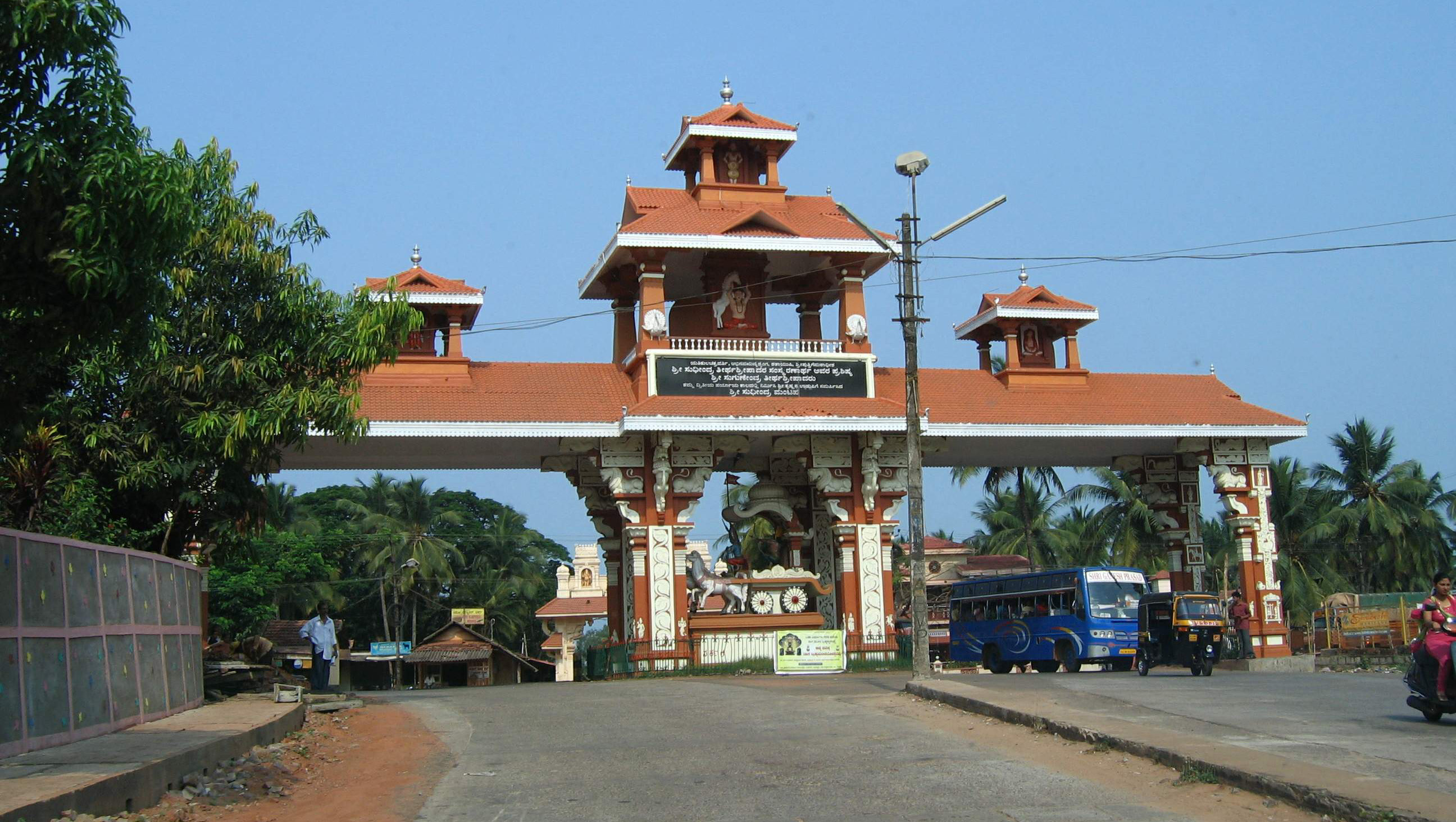 The backside view of gate to Udupi Town